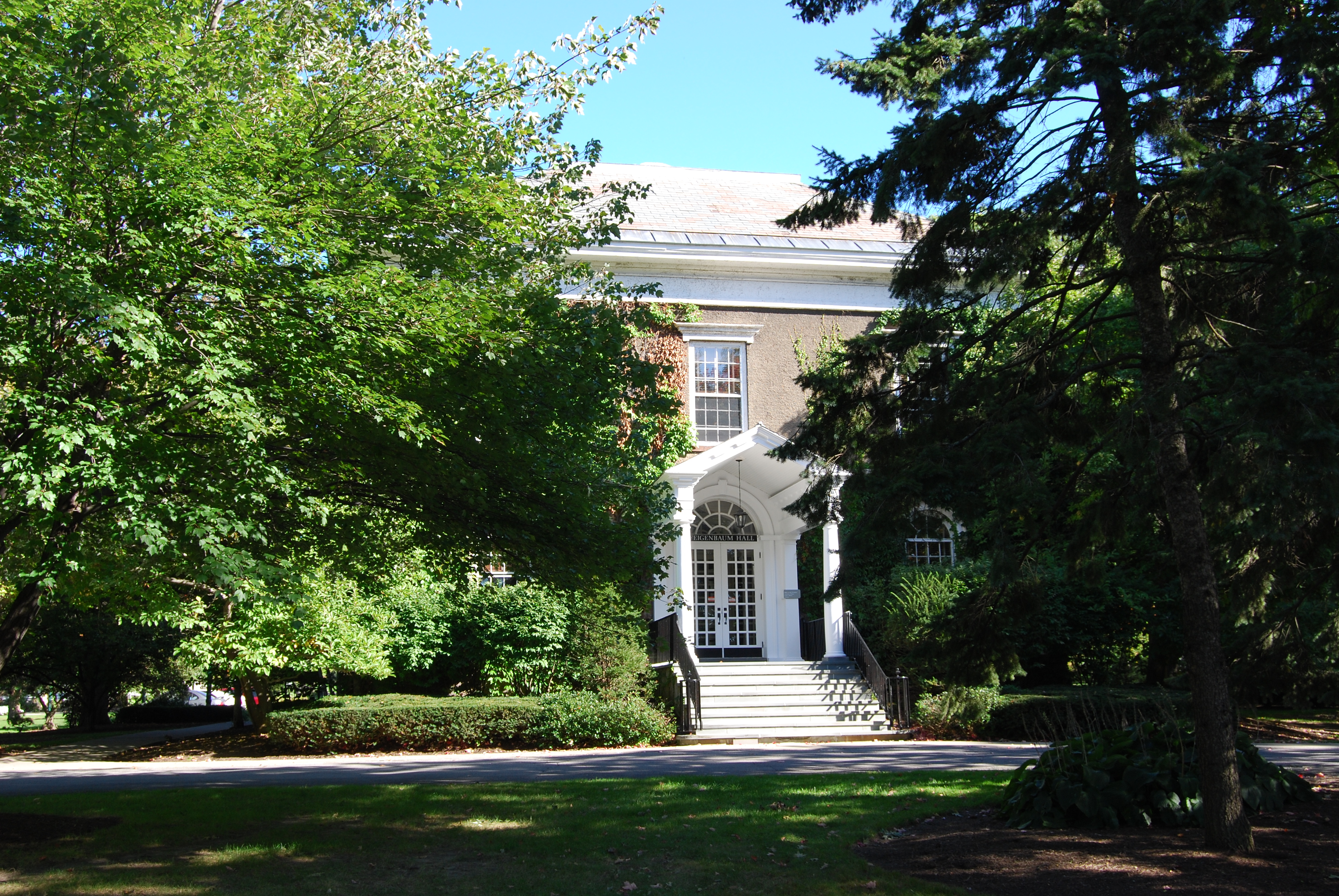 Feigenbaum Hall on the campus of Union College in Schenectady, New York, United States